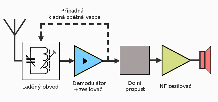 Block diagram